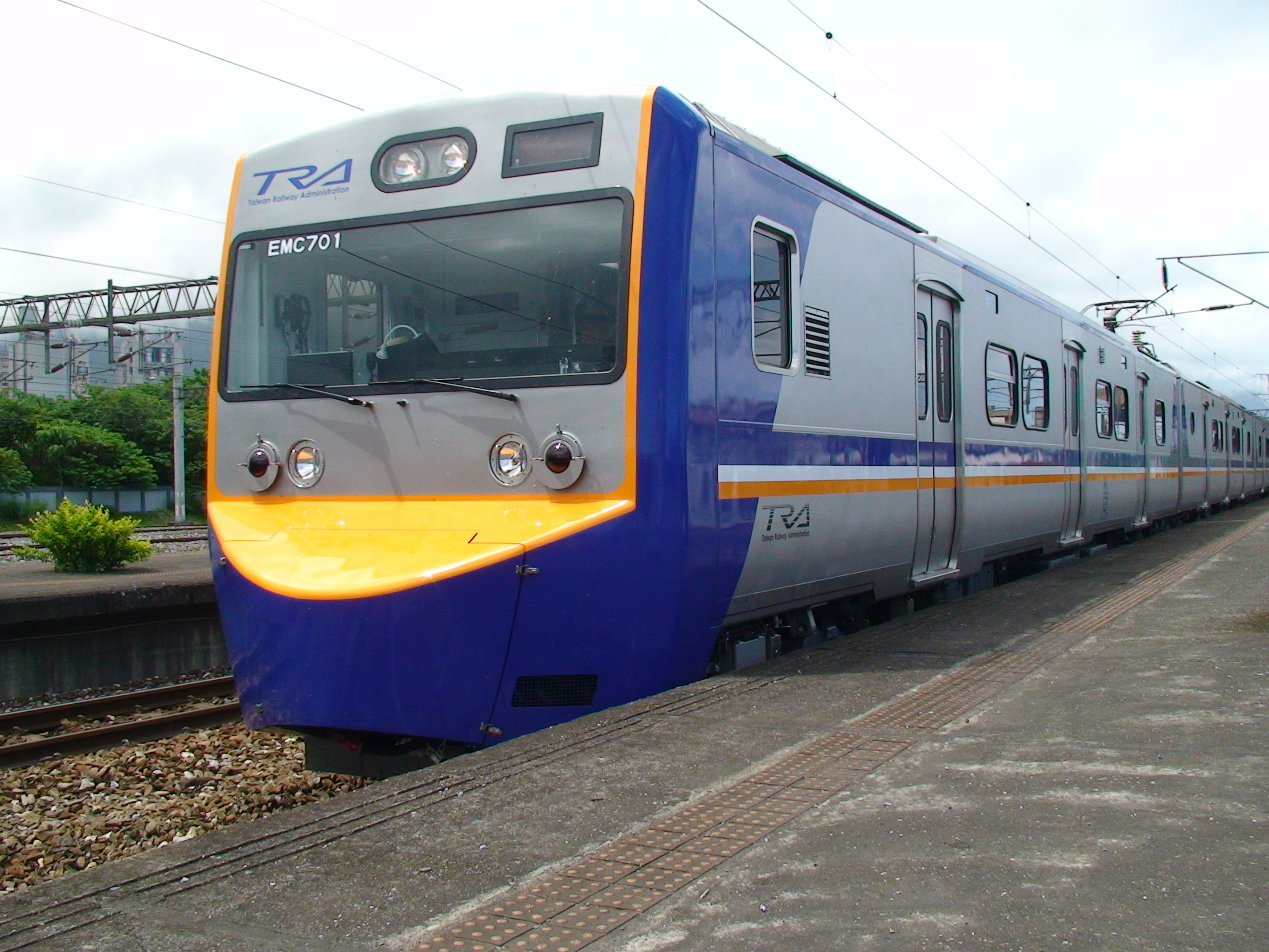 TRA EMC701, test-run at Sincheng Station (Now named as Taroko Station)